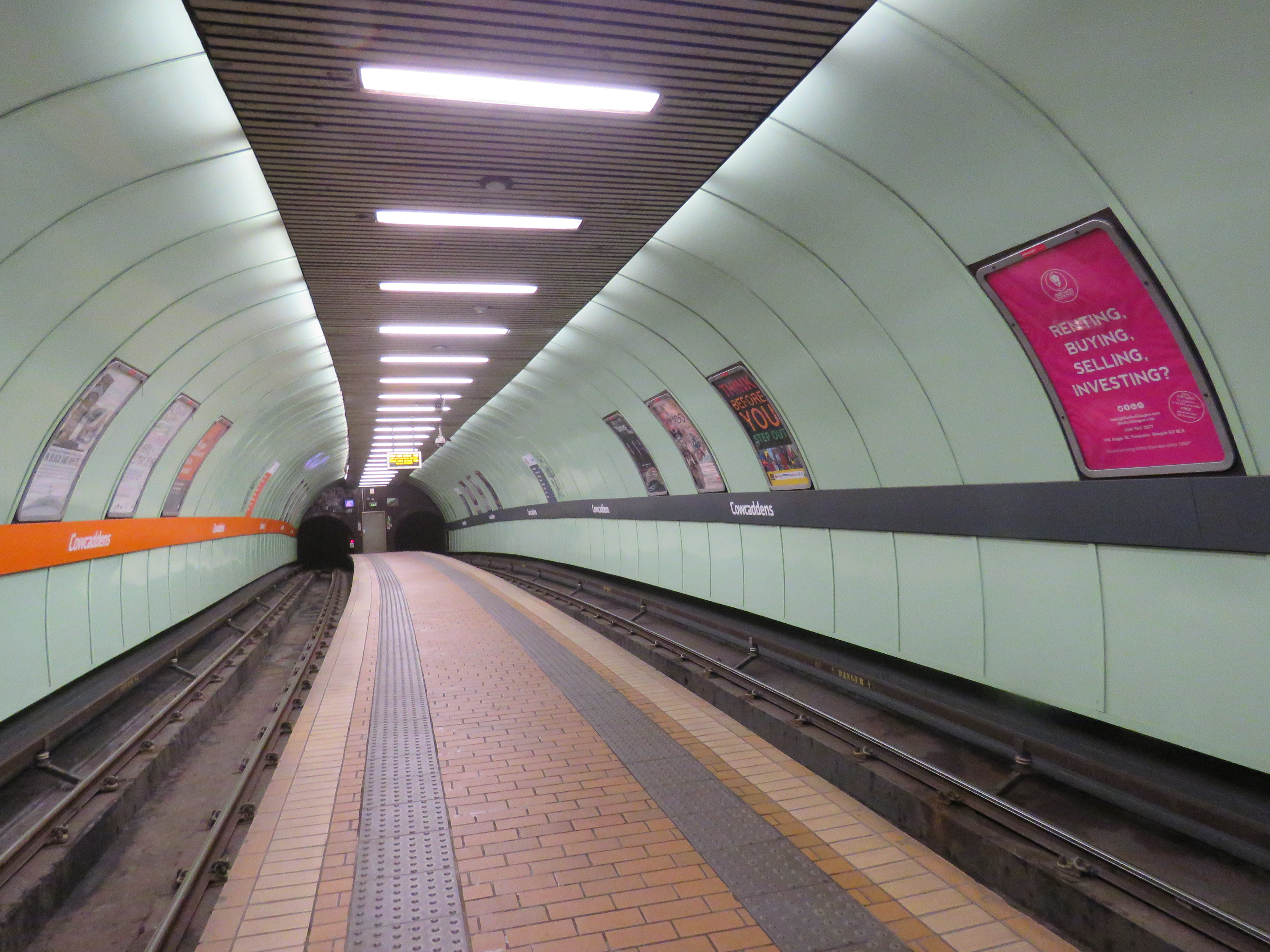 platform and tunnels, Cowcaddens underground station, Glasgow